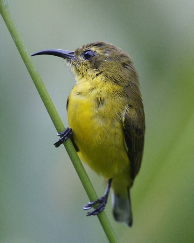 Olive-backed Sunbird (female) at Singapore Botanic Gardens photographed on 26 December 2008.